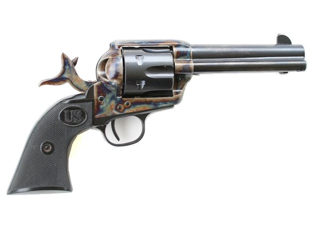 Single Action Army at full cock